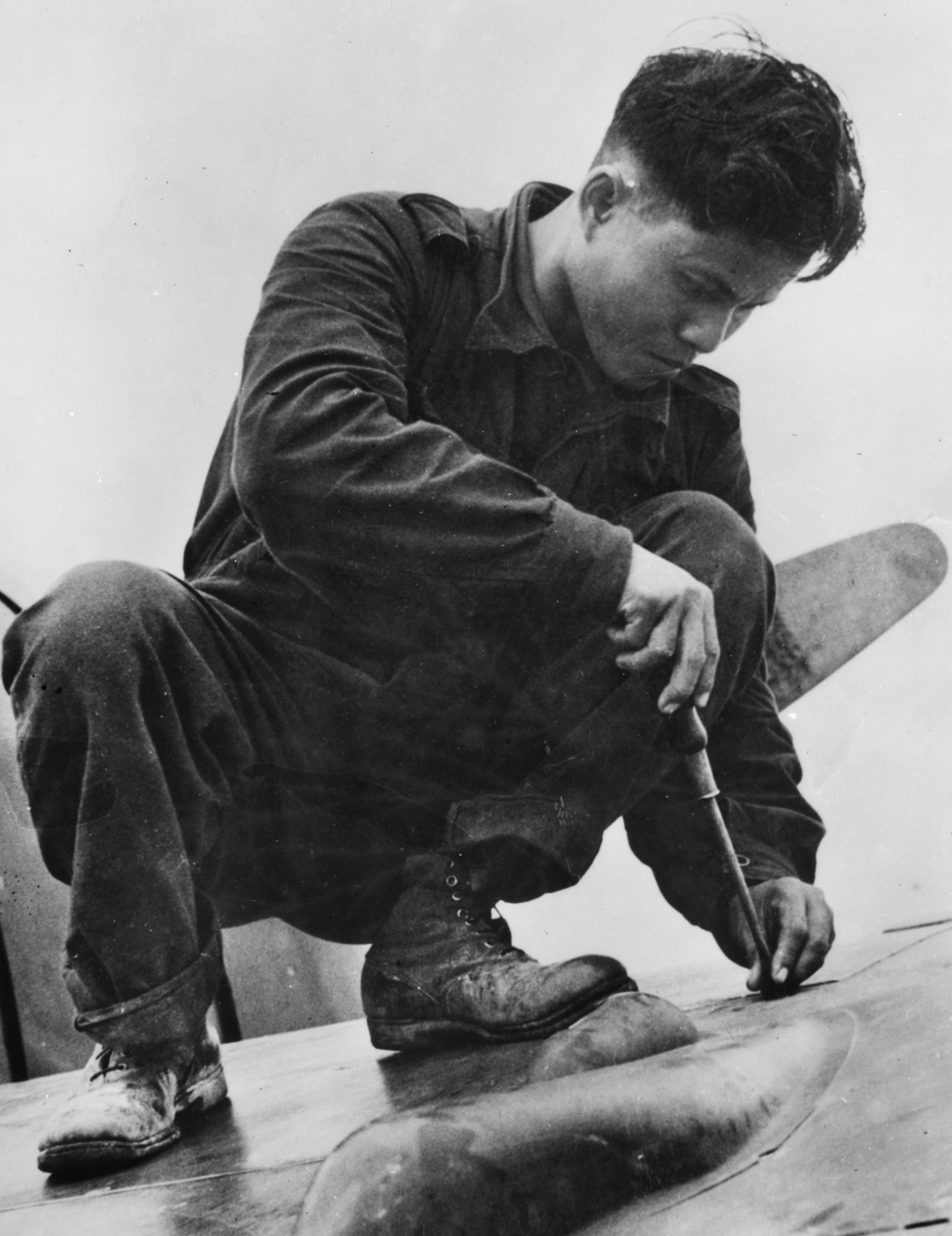 Original caption: During the campaign in Malaya, preparations were being made behind the lines to prevent equipment from falling into the hands of the advancing Japanese troops. At a Netherlands fighter squadron, a Javanese member of the ground staff closes one of the gun-bay panels on a Dutch Brewster Buffalo fighter.